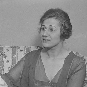 Amparito Farrar in 1918 - died in 1989